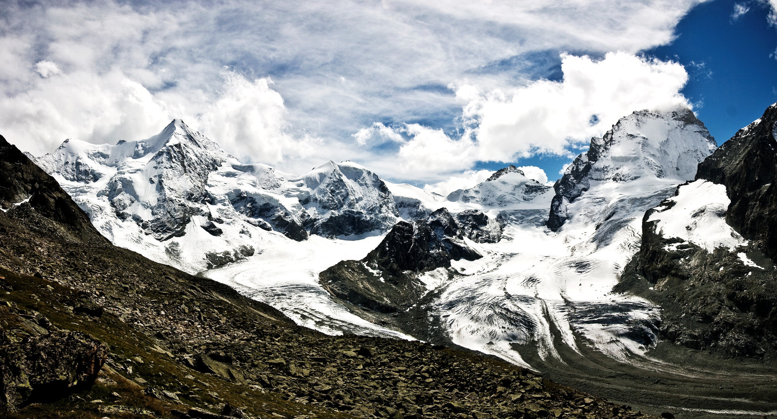 Obergabelhorn, Mont Durand, Pointe de Zinal, Dent Blanche